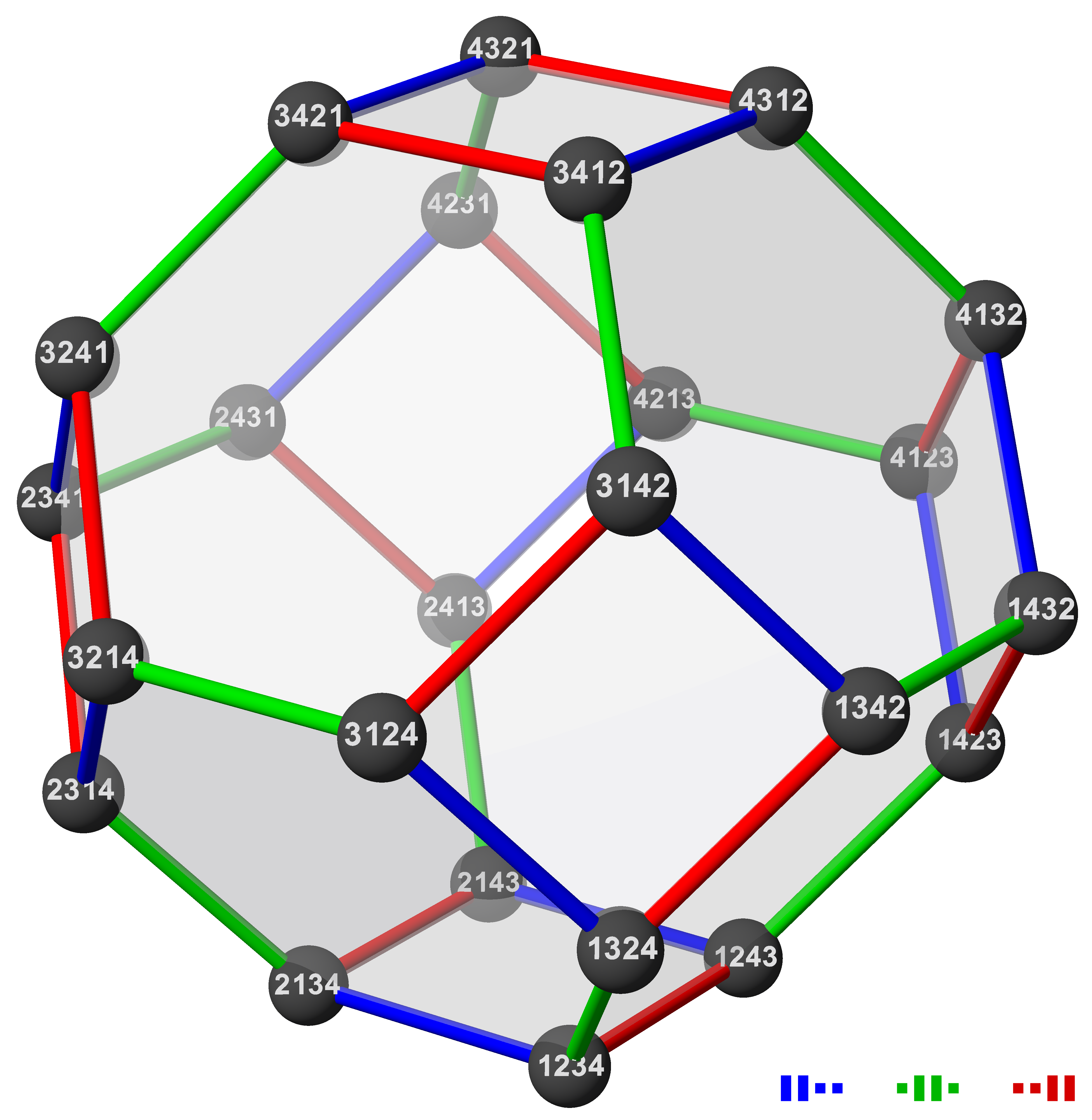 Cayley graph of S4 generated by the transpositions that swap neighbouring elements (a truncated octahedron like the permutohedron) This image was created with POV-Ray. trunc_octa_cayley.pov